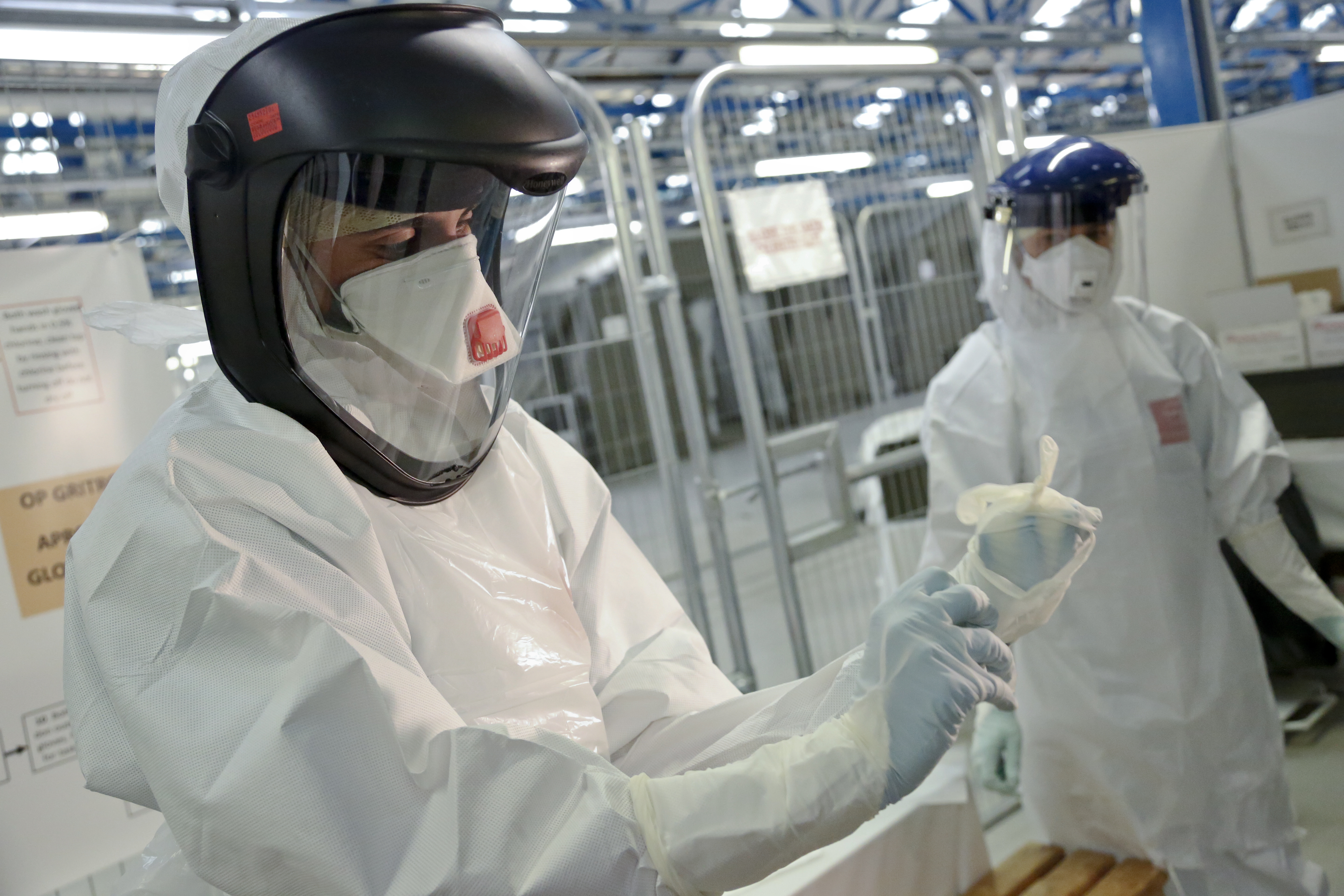 Lance Corporal Chris Paterson shows NHS medics how to put on Personal Protective Equipment (PPE) that they will wear in the British-built Ebola treatment centres in Sierre Leone. The kit - including overalls, visors, gloves and more - must be put on in the right order to provide maximum protection, as well as removed in a special sequence to reduce risks of contamination. Doctors, nurses and medics from across the UK's National Health Service are joining Britain's fight against Ebola in Sierra Leone. More than 30 NHS staff will make up the first group of volunteers to be deployed by the UK government. The NHS volunteers have spent 9 days training at the Army Medical Services Training Centre at Strensall near York in preparation. The facility is a replica of a Sierra Leone Ebola treatment centre. The group - which includes GPs, nurses, clinicians, psychiatrists and consultants in emergency medicine - will work on testing, diagnosing and treating people who have contracted the deadly virus. They will work in British-built treatment centres across the country, which when full, will triple Sierra Leone’s bed capacity. Find out more about the UK's fight against Ebola in Sierra Leone at: Picture: Simon Davis/DFID Free-to-use photo This image is posted under a Creative Commons - Attribution Licence, in accordance with the Open Government Licence. You are free to embed, download or otherwise re-use it, as long as you credit the source as 'Simon Davis/DFID'.